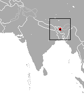 Gee's Golden Langur (Trachypithecus geei) range (red — extant, black — extinct)